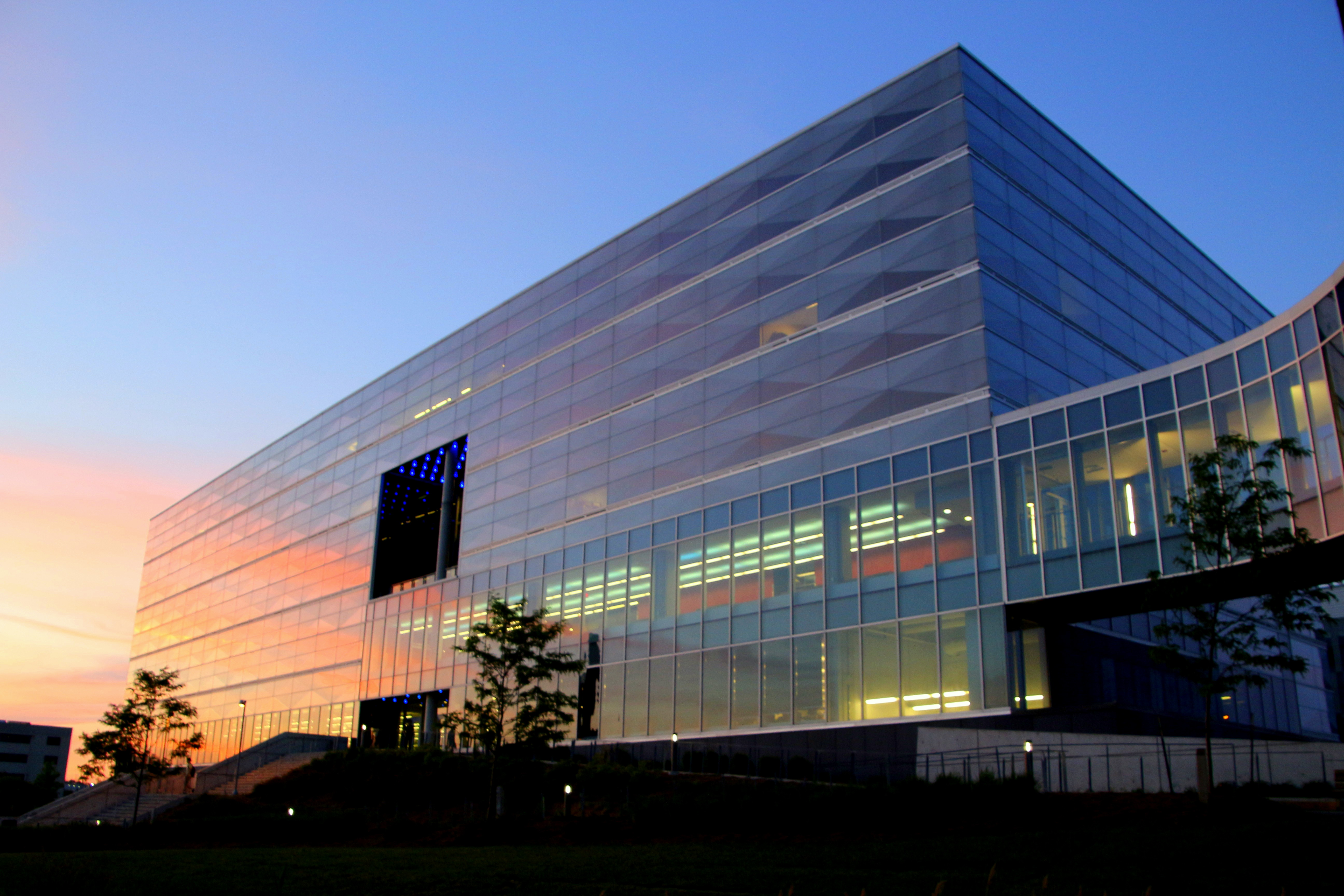 University of Waterloo engineering faculty building E5.